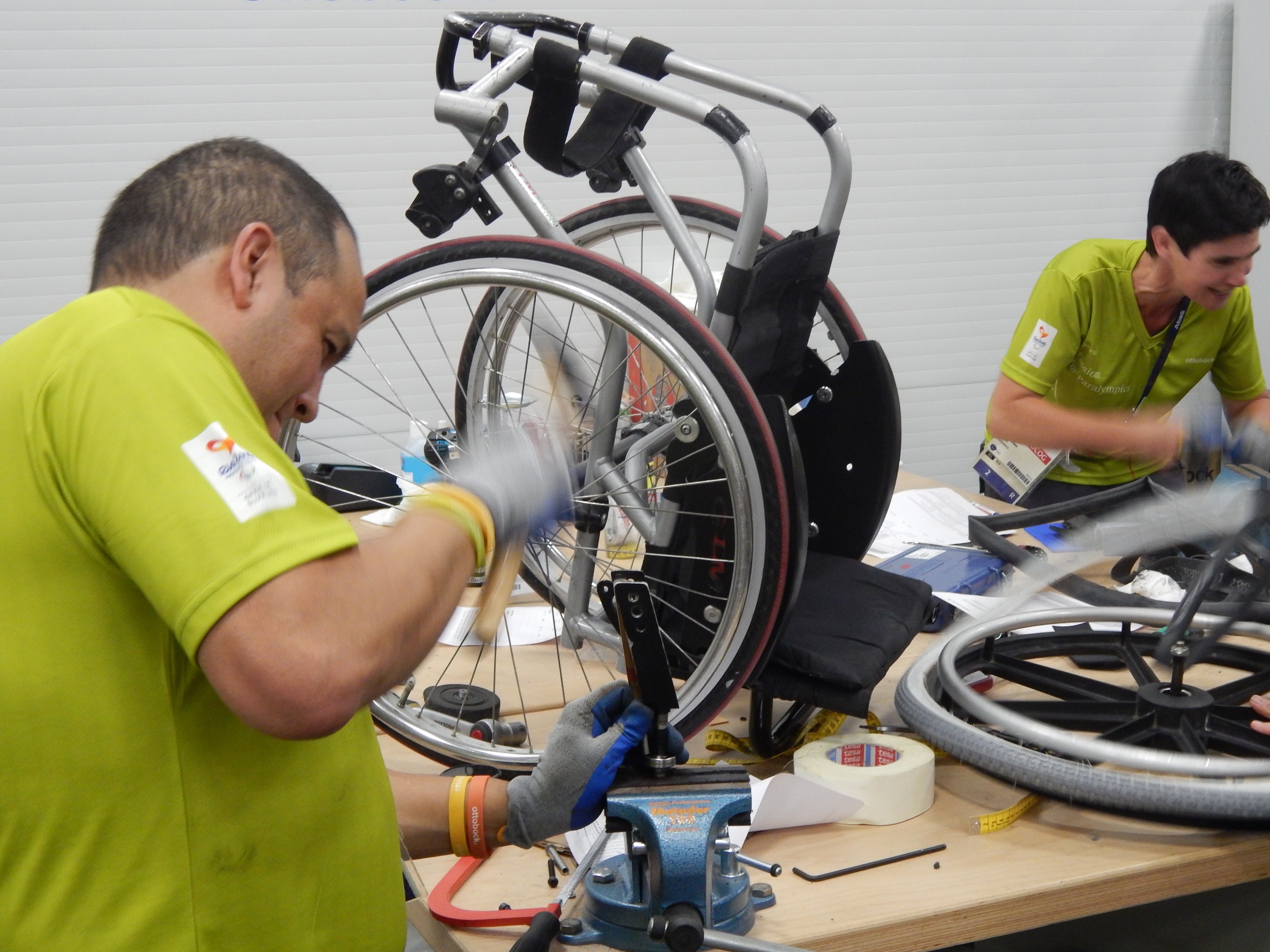 Ottobock technician repairs a wheelchair at the 2016 Summer Paralympic Games in Rio de Janeiro